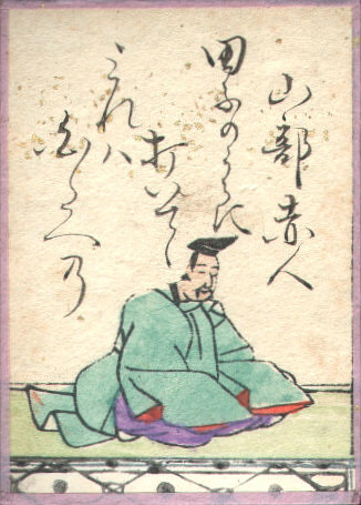 A portrait of Yamabe no Akahito; illustration from an uta-garuta playing card for Hyakunin Isshu, created in the Edo period.